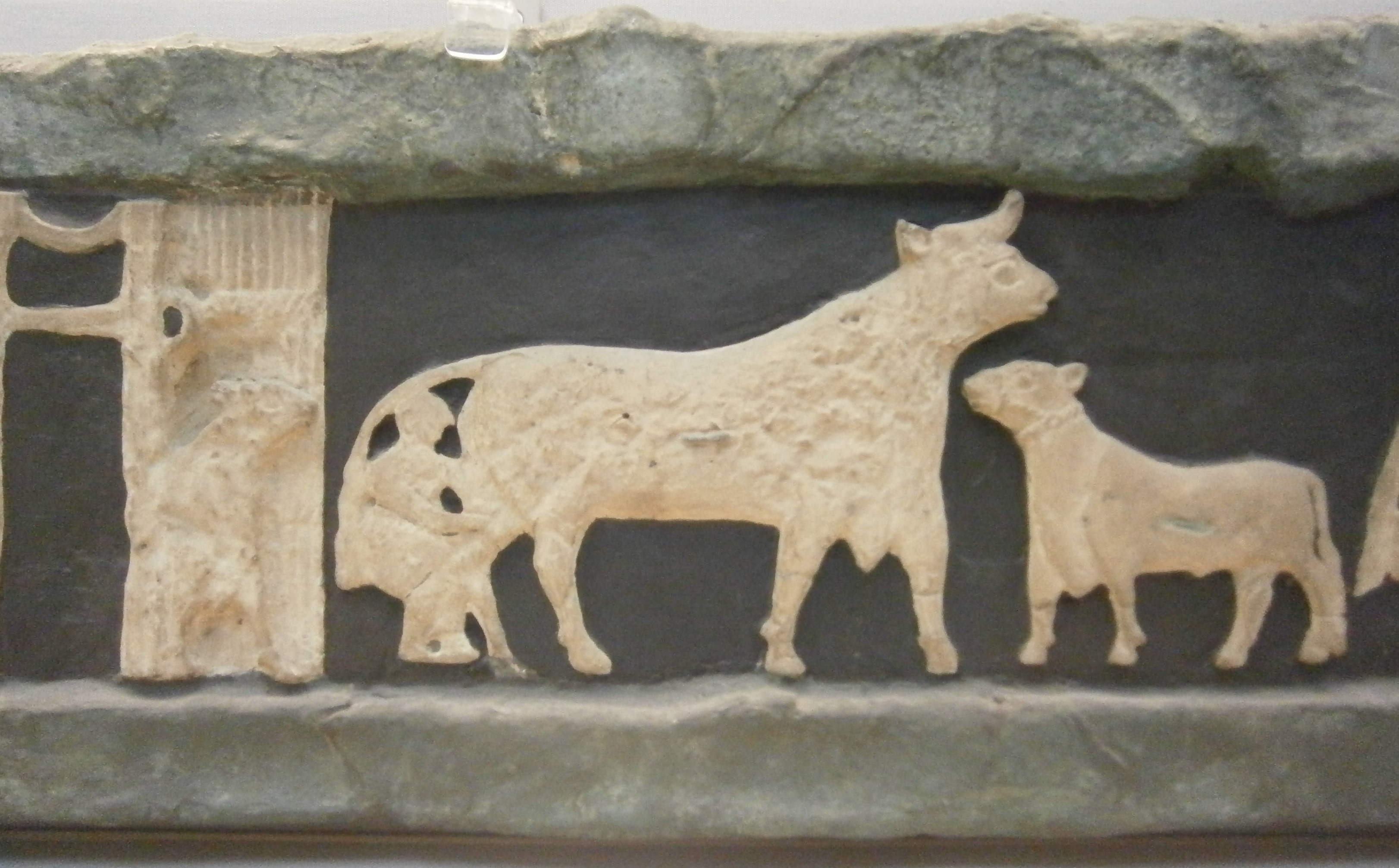 Dairy frieze: at the stable, a man milking a cow, with her calf. From Tell al-'Ubaid, shell and limestone, schist, bitument and copper panels. Date: Early Dynastic IIIB, c. 2500-2450 BC, reign of A-anne-pada of Ur.